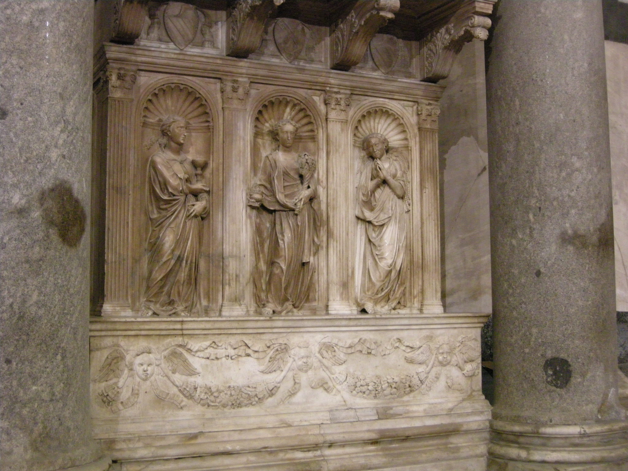 Antipope John XXIII tomb